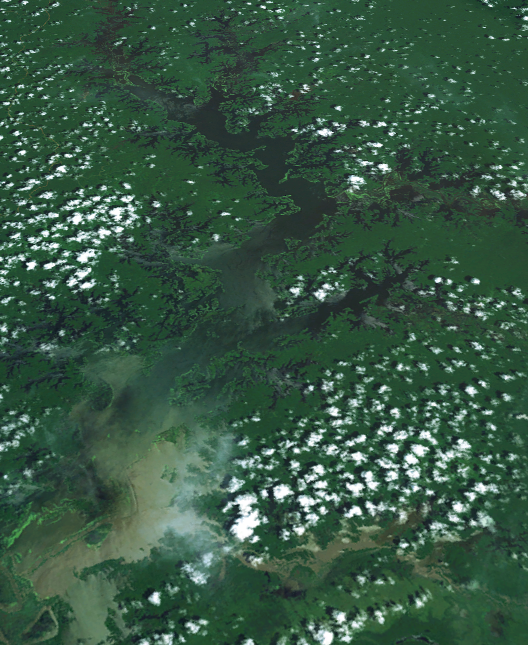 NASA World Wind image of Lake Murray